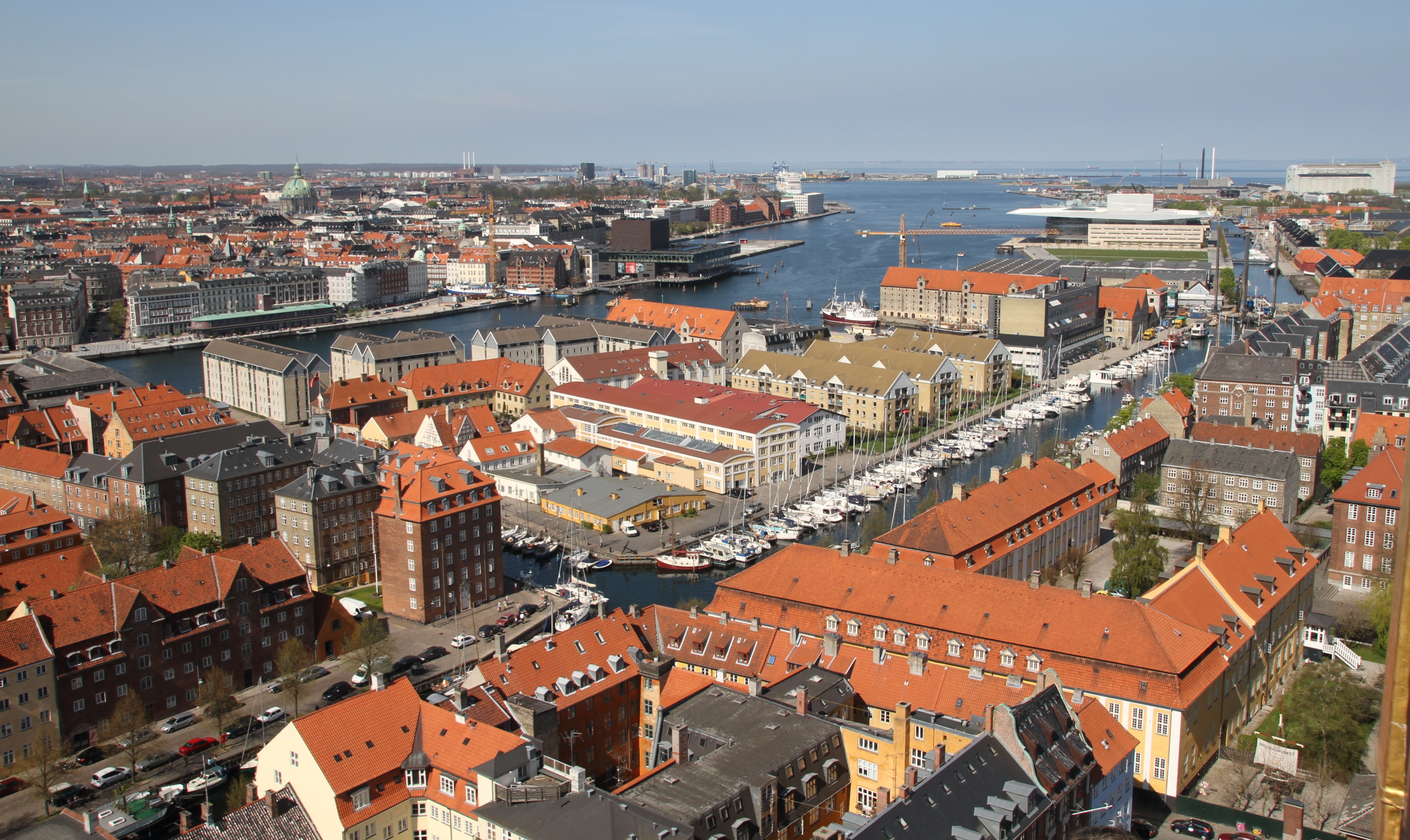 Photo from the central canal area of Christianshavn, eastern Copenhagen - Denmark.